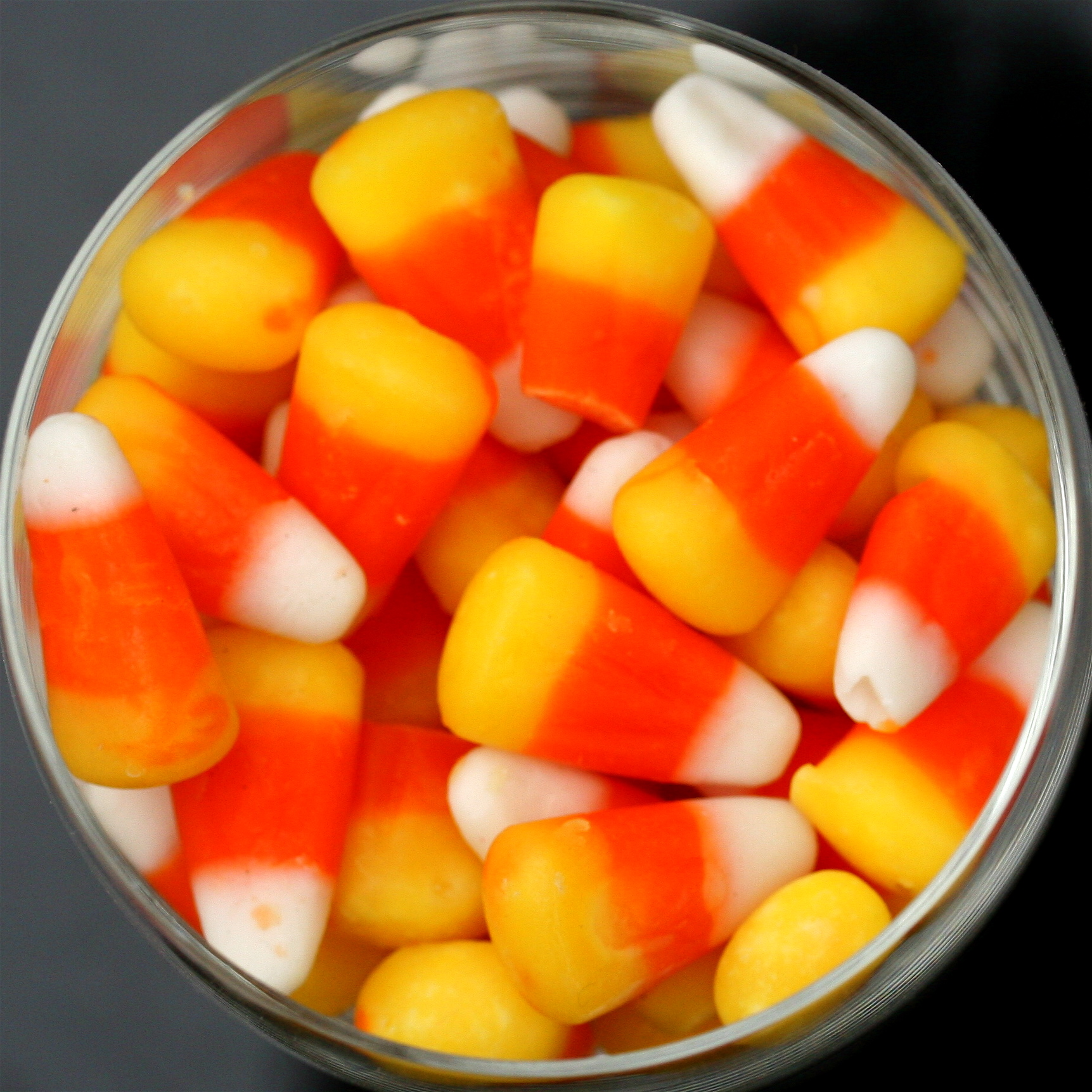 Candy corn squircle.